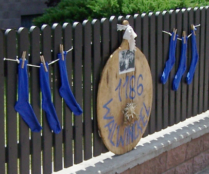 In Wahlwinkel village.